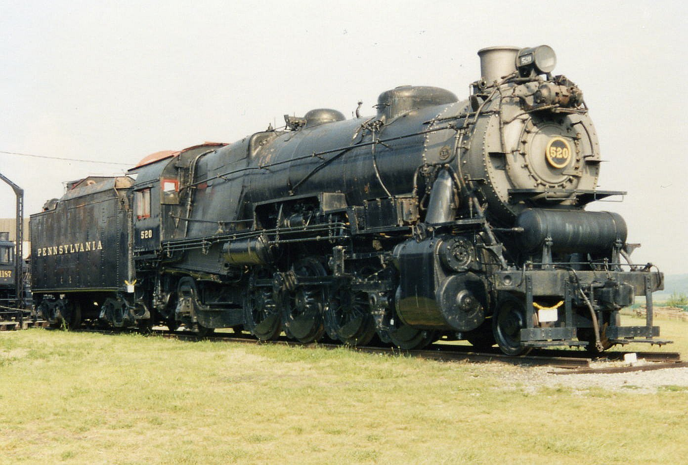 Pennsylvania Railroad 2-8-2 number 520 in the Pennsylvania Railroad Museum, Strasburg, in 1993. Photo by Sean Lamb (User:Slambo)